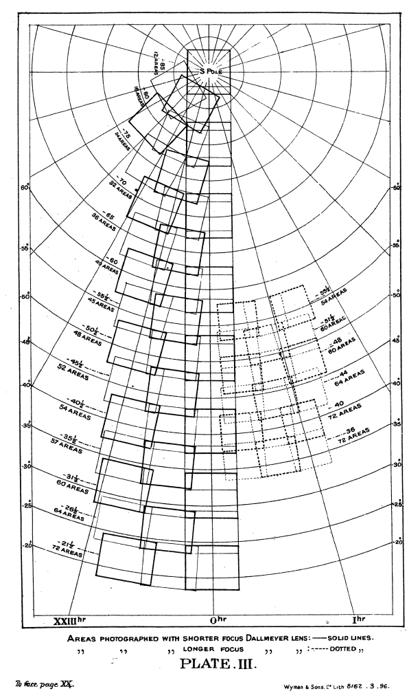 A drawing of the distribution of glass photo plates of the stars seen from the Southern hemisphere. The plates were analyzed by Dutch astronomer Kapteyn. The photos were taken by David Gill in South Africa. Each photo overlapped with some of the others.